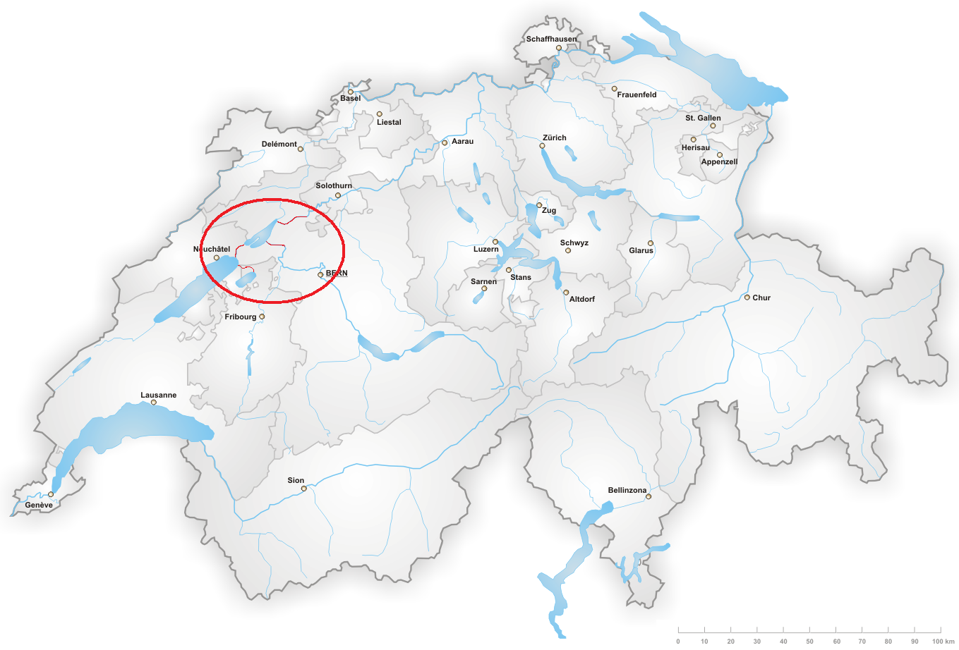 Country-side map of the rivers paths correction in Seeland / Switzerland.